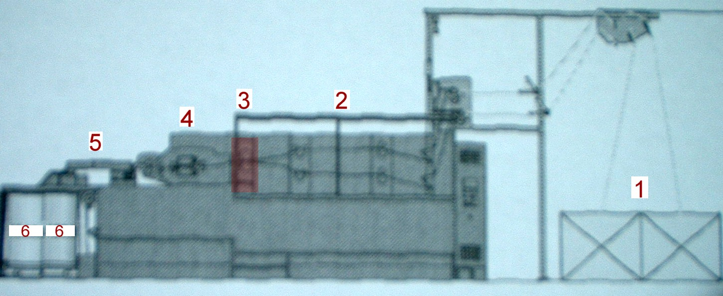 Cutting convertor